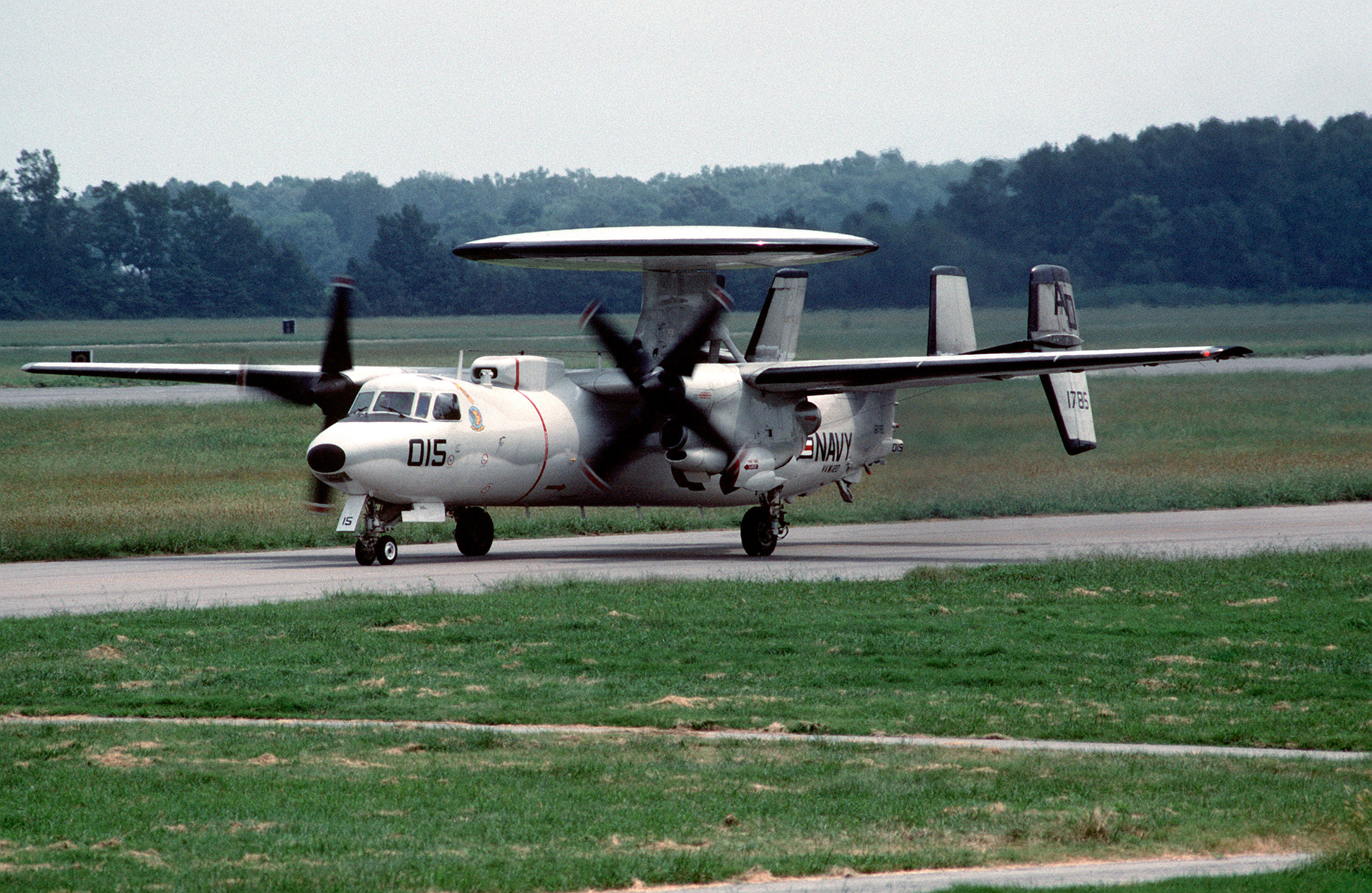 A U.S. Navy Grumman E-2C Hawkeye (BuNo 161785) from airborne early warning squadron VAW-120 Greyhawks after landing at the Naval Air Station Oceana, Virginia (USA), on 1 August 1989. VAW-120 is a training squadron for E-2 crews. The E-2C 161785 was retired to the AMARC as 230034 on 18 May 2000.